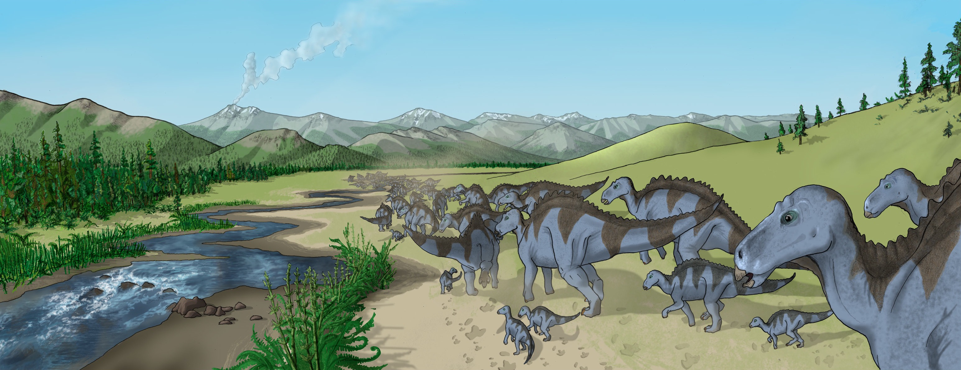 Maiasaura panorama drawing by me user debivort october 2007.